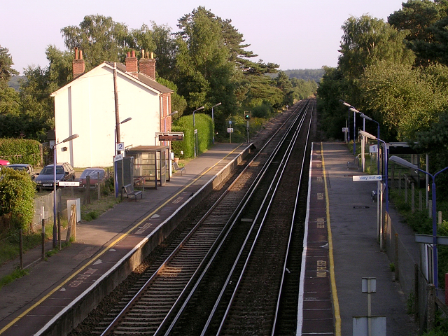 Beaulieu Road station, New Forest. The station is on the Southampton-Brockenhurst mainline. The station was not originally intended to serve the village of Beaulieu (hardly convenient because it's over 3 miles away across heathland and woodland), but was a 'personal' station built for Lord Montagu as a concession for allowing the railway to be built over part of his Beaulieu Estate. A special signal would indicate to the train drivers that they should stop for the Lord and his guests. Nowadays anyone can use the station (provided they've bought a ticket).